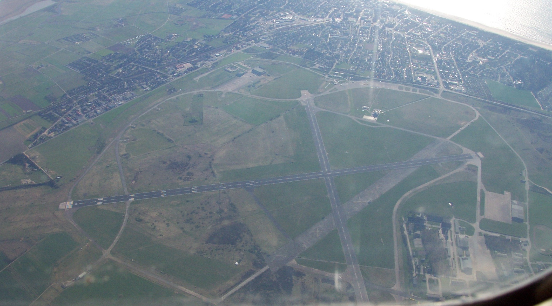 Flughafen Sylt (Sylt Airport)